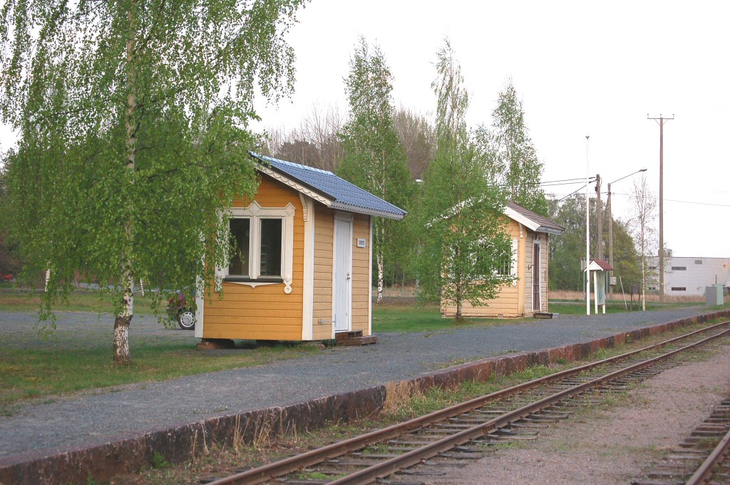 Jokioinen railway station (of the narrow-gauge Jokioinen Museum Railway, Finland) in May 2006. Info shelter on left, station building & ticket office on right.